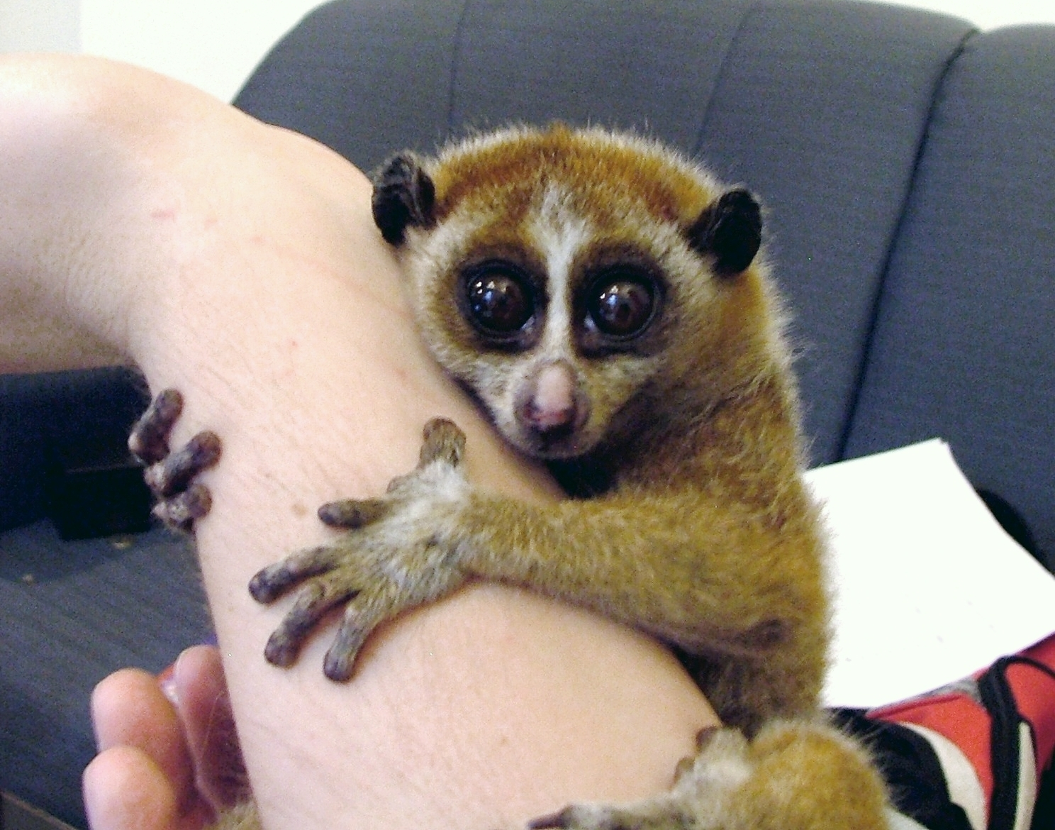 A female Pygmy Slow Loris (Nycticebus pygmaeus) clinging strongly to a human arm